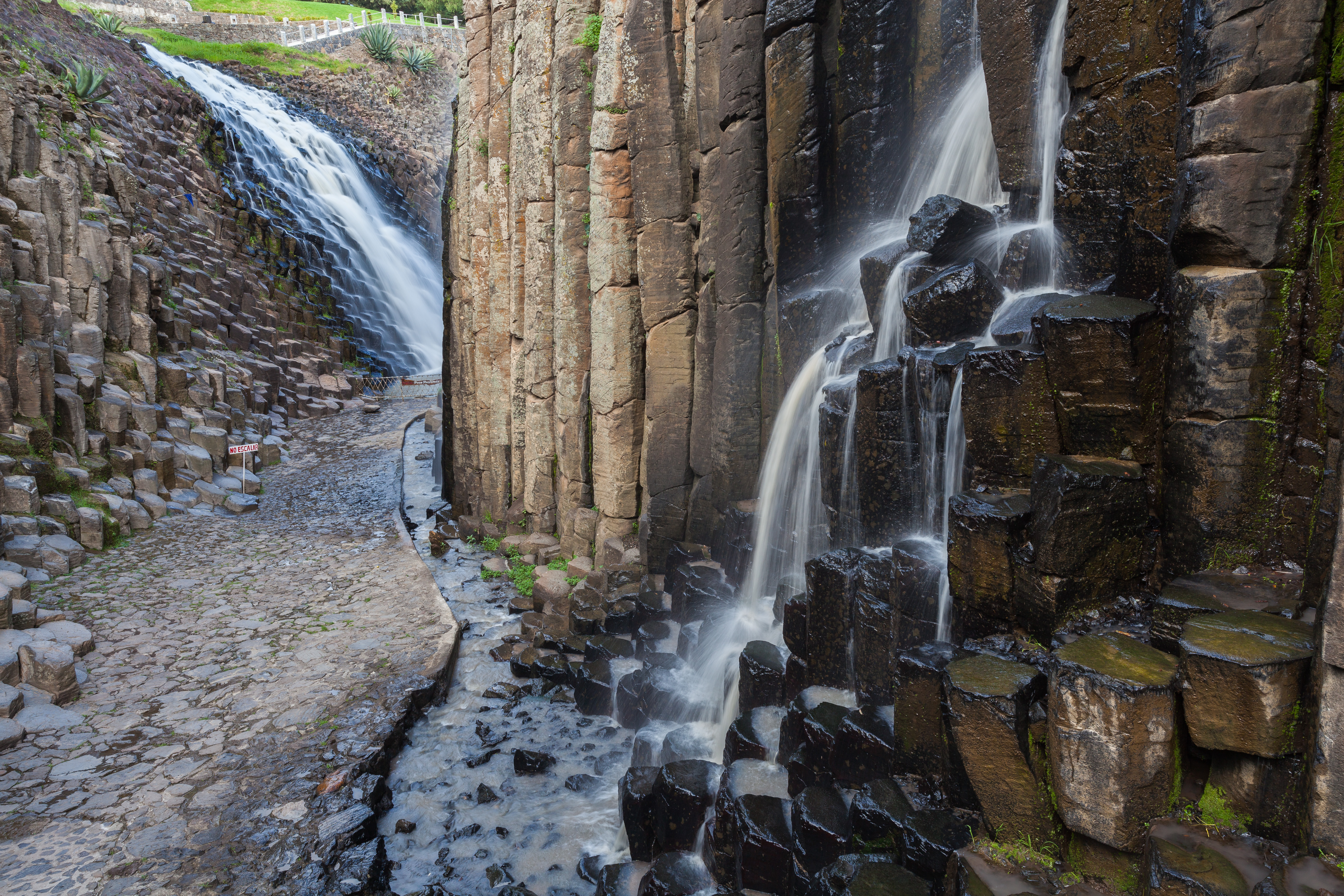 Basaltic Prisms, Huasca de Ocampo, Hidalgo, Mexico